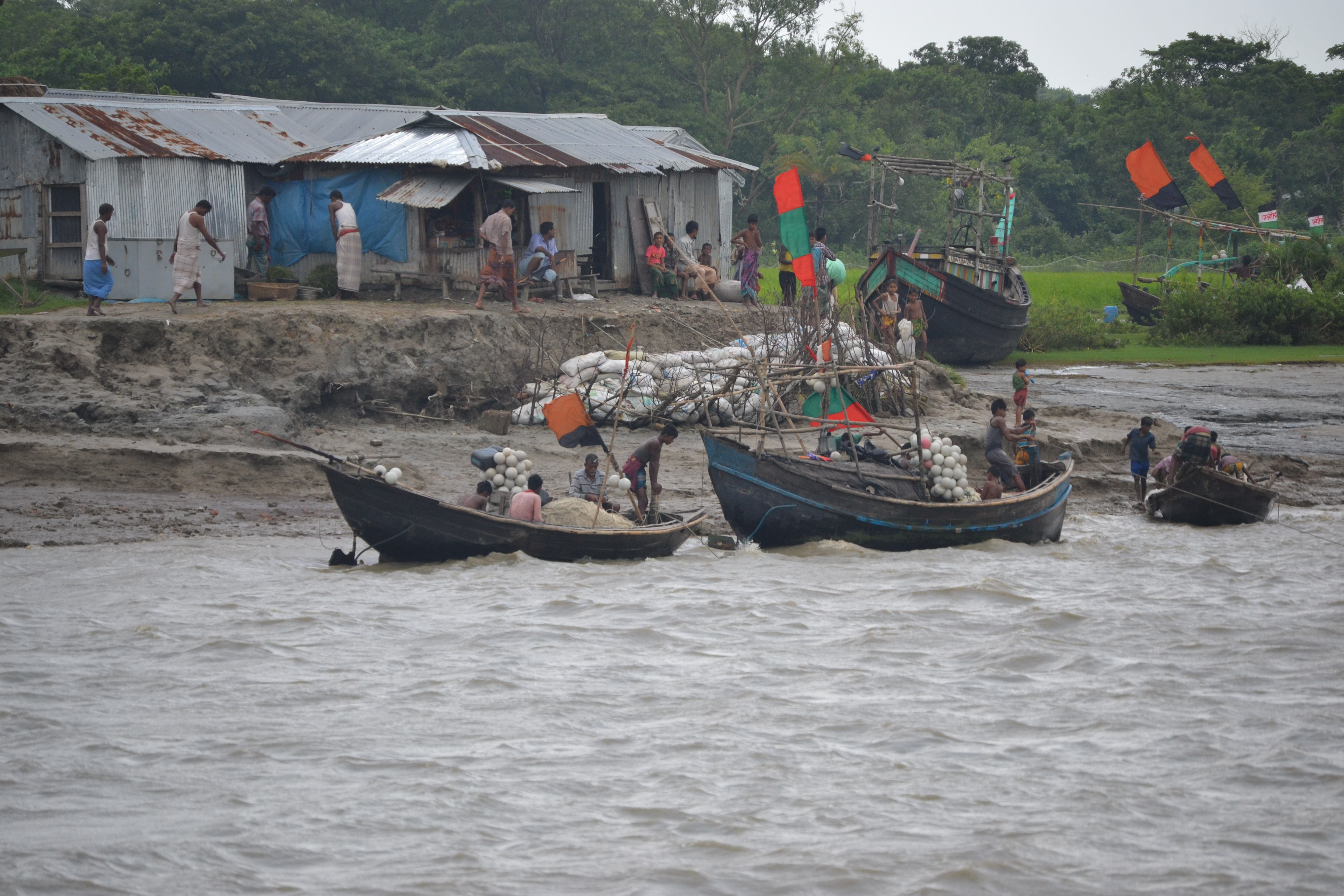 It's Hatiya Island This picture Hatiya River corrosion Scan 04